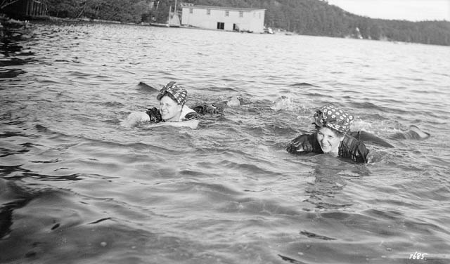 "Bathing Beauties" - Two unidentified women, Muskoka Lakes, Ont